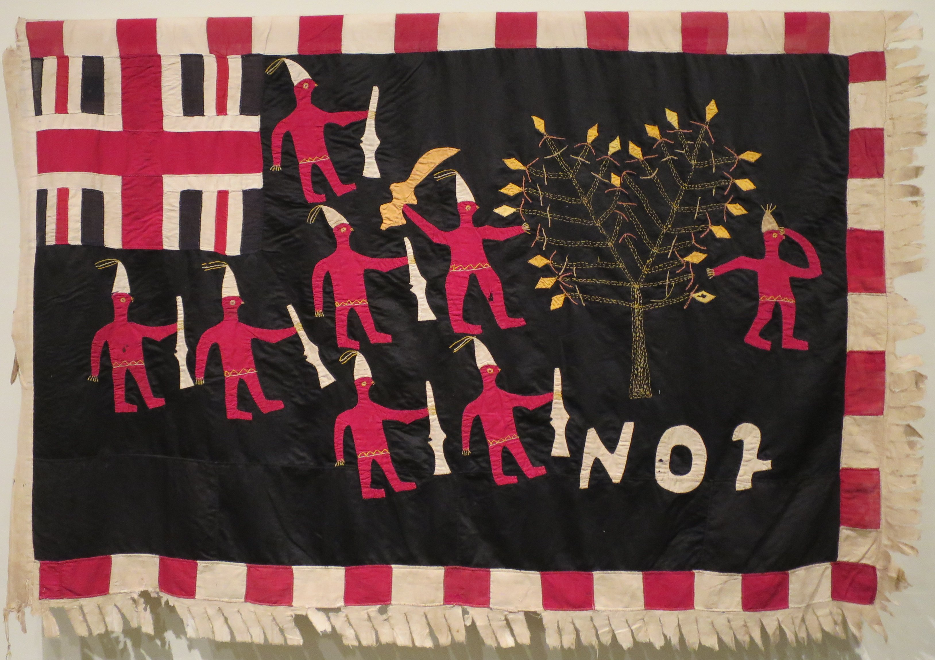 Asafo Flag, No. 2 Company; created by Akwa Osei; Kormantine, Ghana, Fante people; c. 1900, cotton and rayon, embroidery and appliqué, Honolulu Museum of Art, accession 5886.1